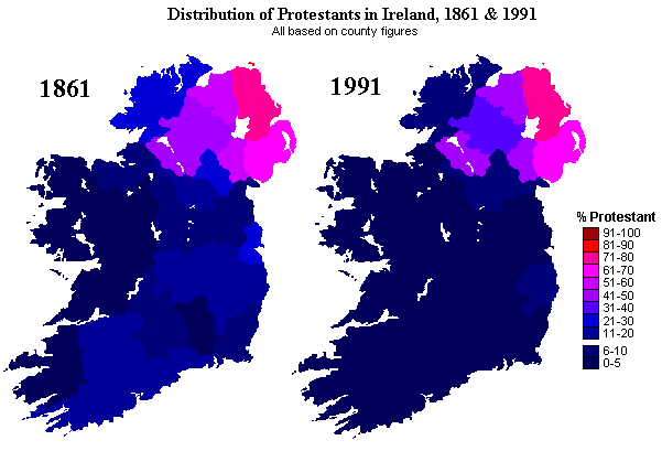 Distribution of Protestants in Ireland, 1861 & 1991